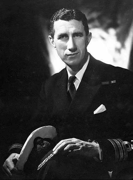 Portrait of Commander (later Vice Admiral Sir) Alan McNicoll, a senior officer in the Royal Australian Navy.